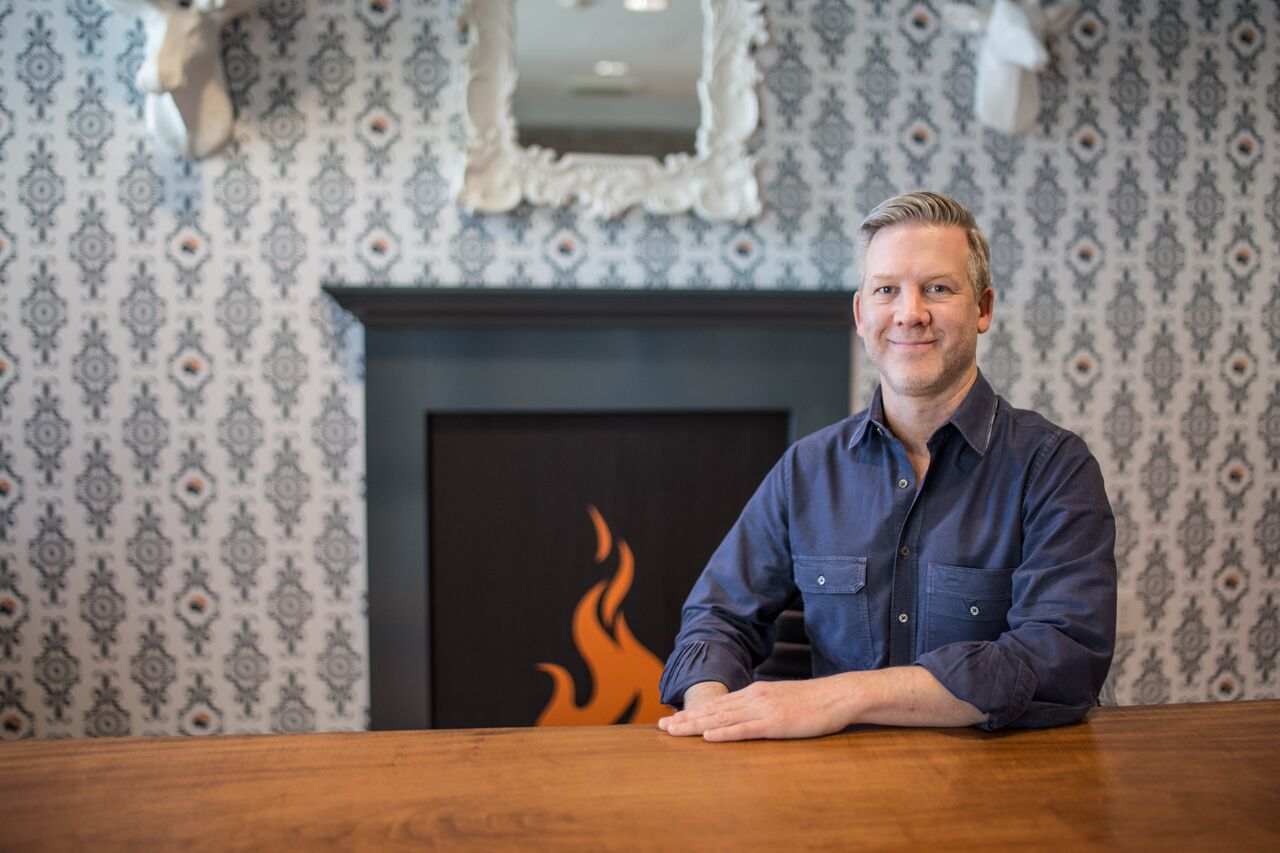 Headshot of Chris Terrill, CEO of HomeAdvisor.